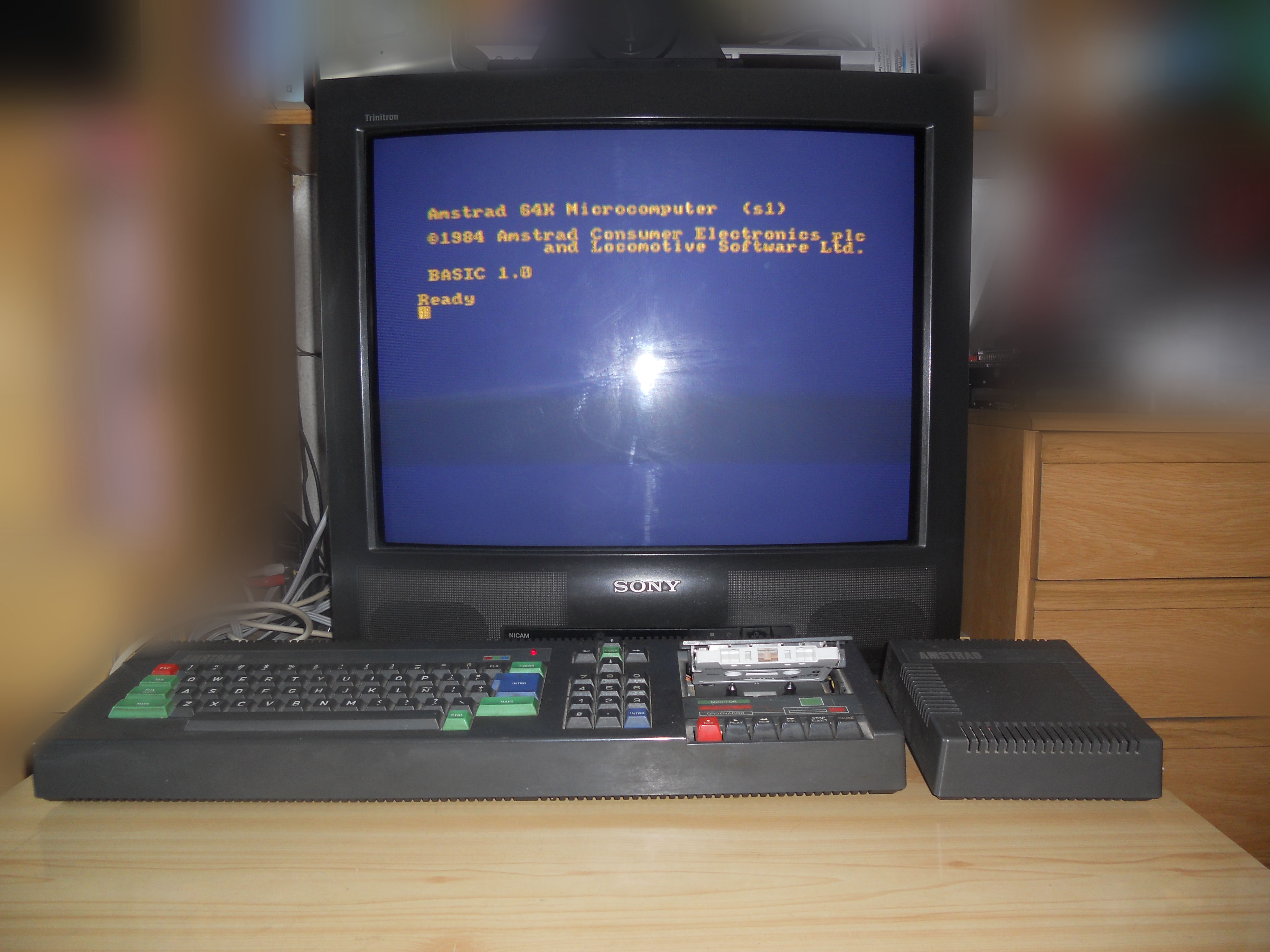 Amstrad CPC 464 plugged to a TV set through MP-1 module